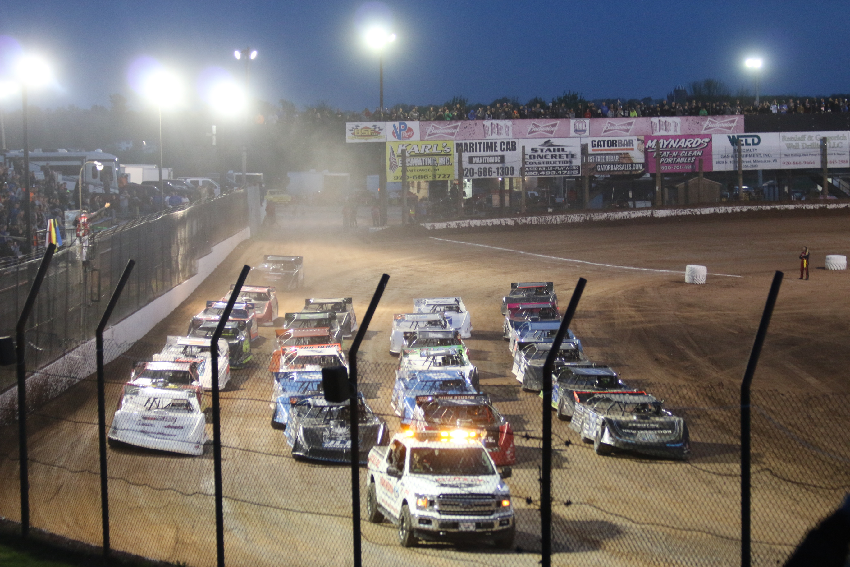 Lucas Oil Late Model Dirt Series drivers salute the fans by going 4 wide before the start of the race at 141 Speedway.